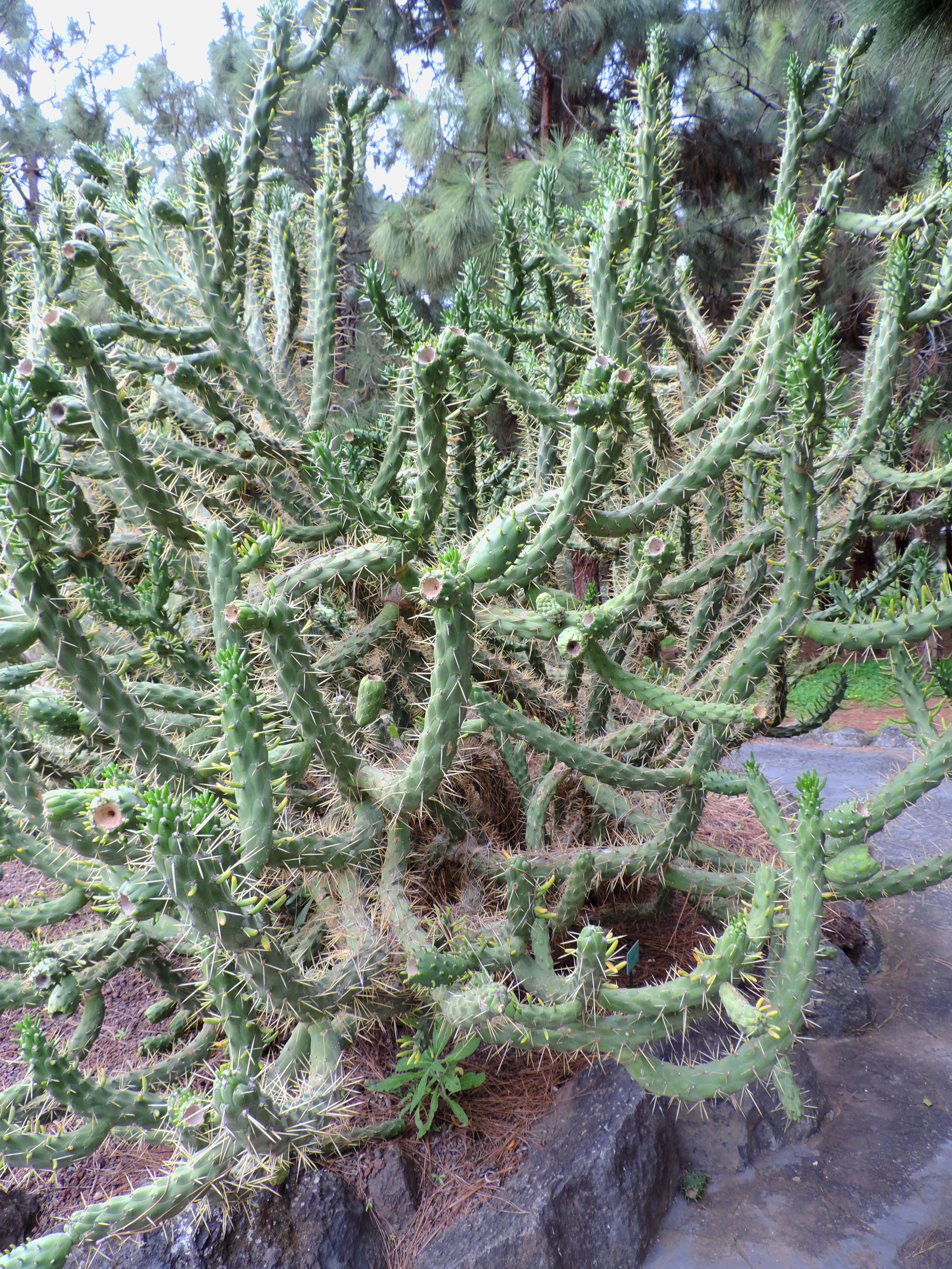 Austrocylindropuntia subulata in Jardín Botánico Canario Viera y Clavijo